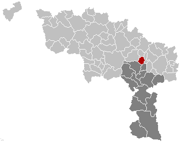 Map, municipality belgium Morlanwelz